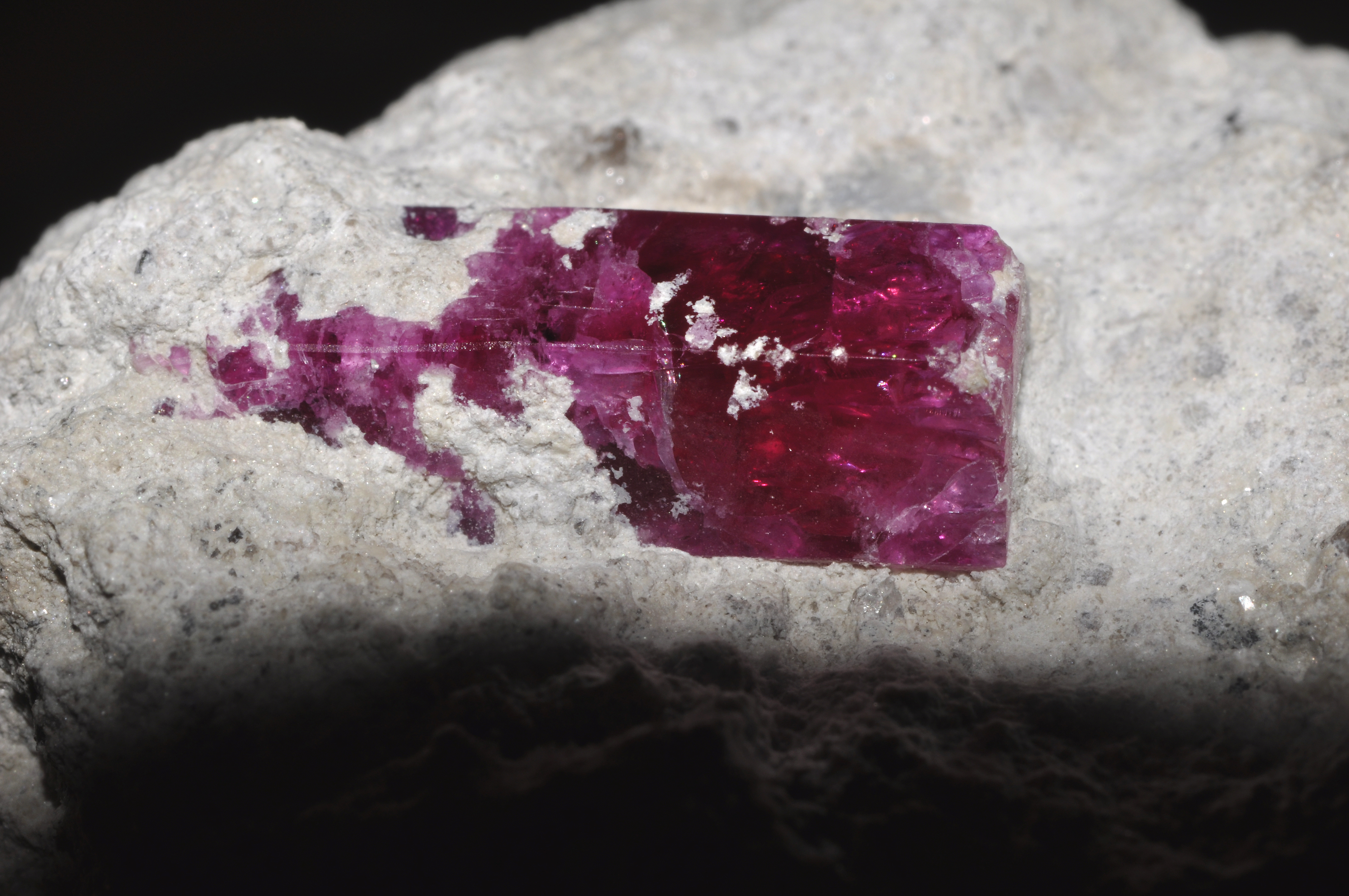 beryl var. red beryl, rhyolite : Violet Claims, Wah Wah Mts, Beaver County, Utah, USA - crystal 15 mm